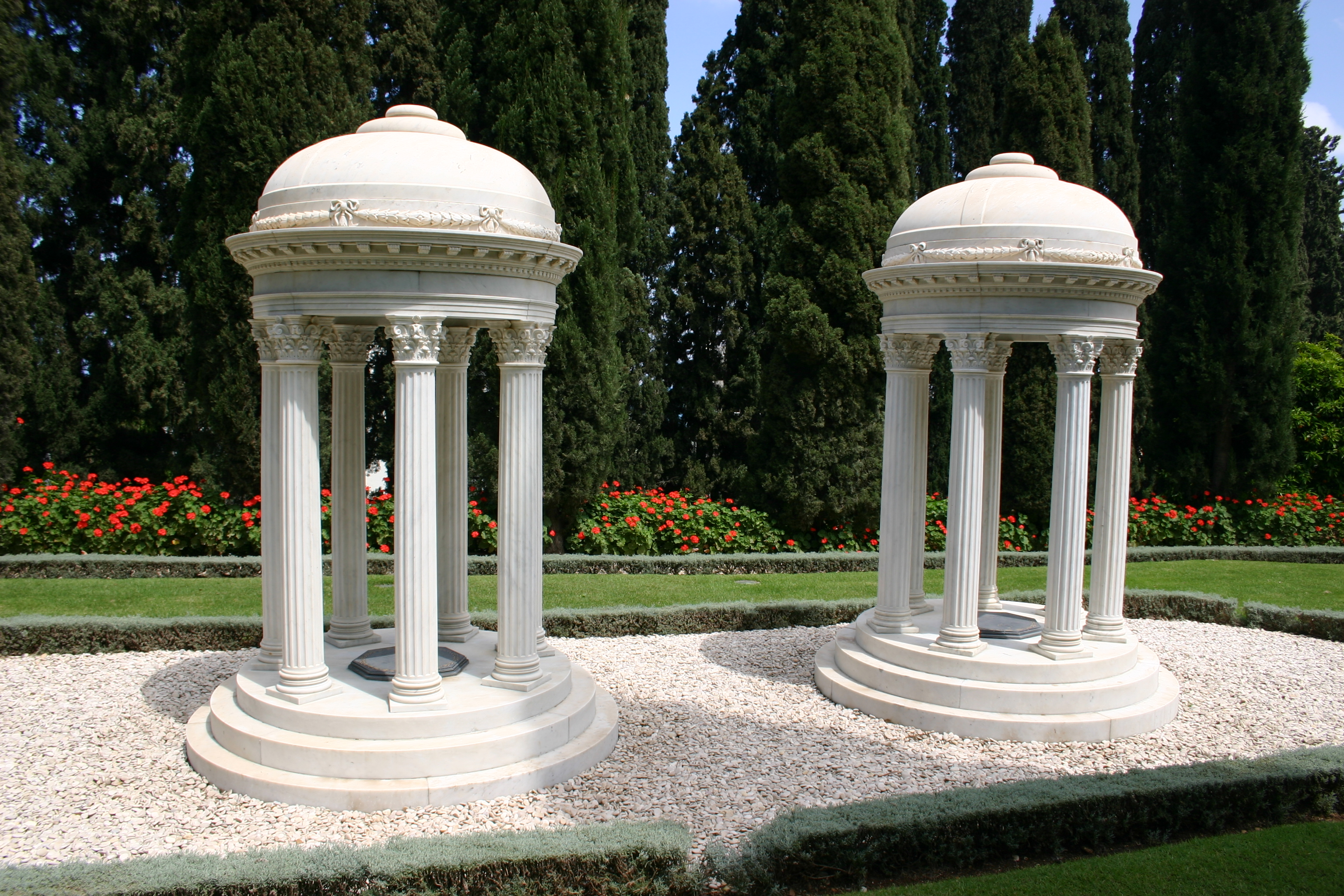 Monument Gardens facing north - Navváb on left, Mihdí on right